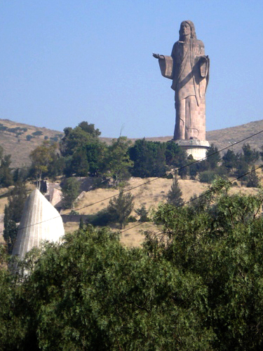 Statue of Jesus in Mexico City